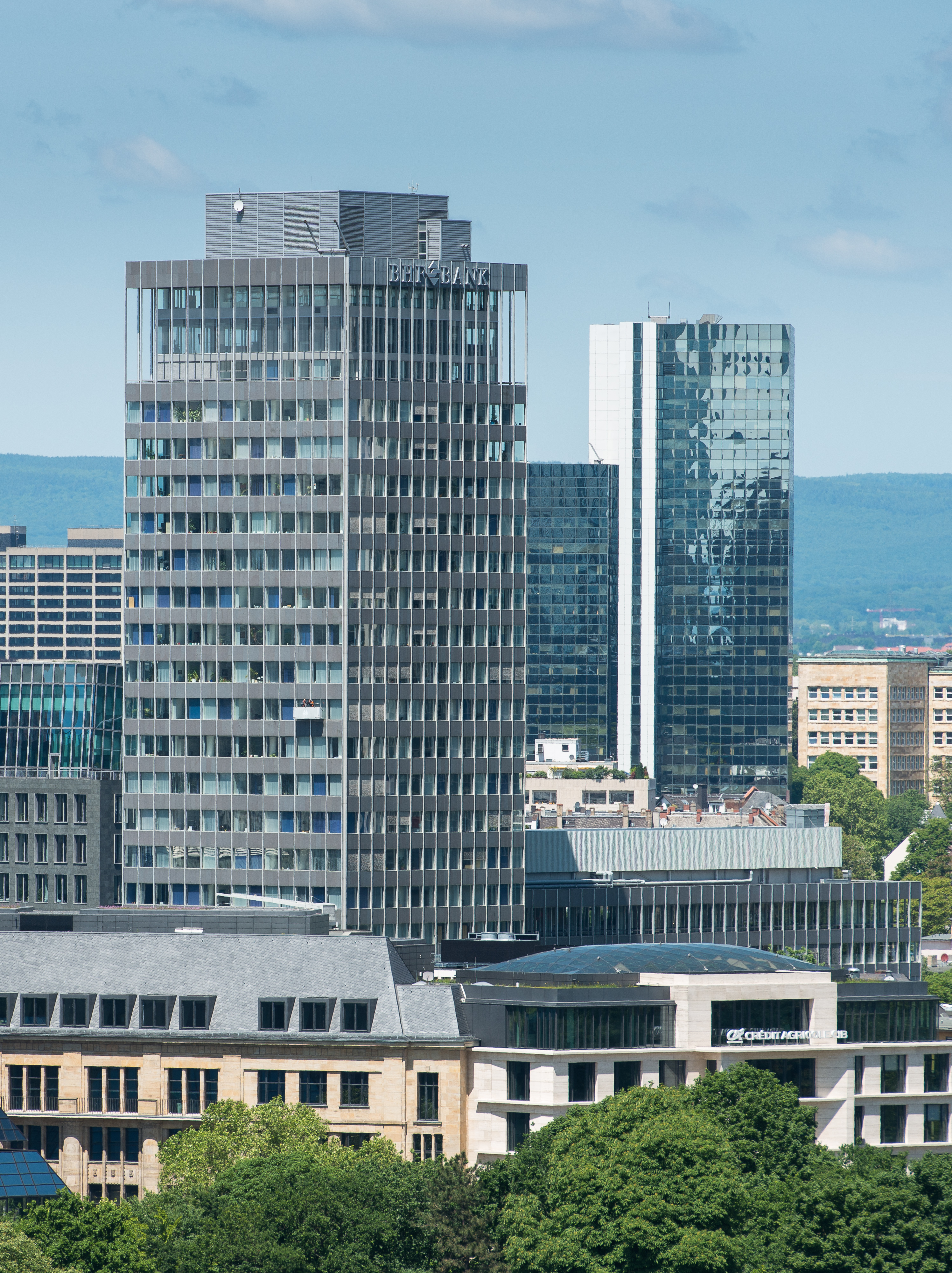 Frankfurt, headquarter of the BHF Bank.